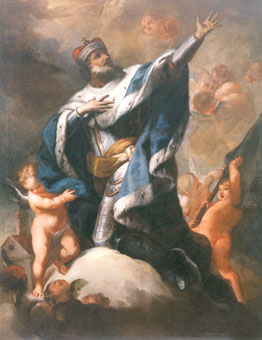 The Apotheosis of St. Leopold by Martino Altomonte. Oil on canvas, 246 x 188 cm. In the collection of the Hungarian National Gallery.